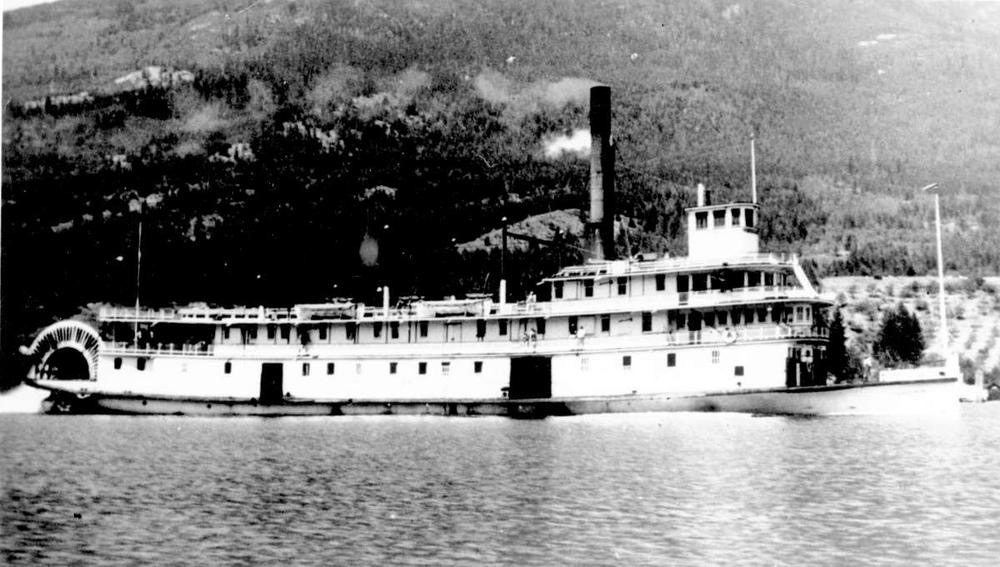 Lake steamer Nasookin converted to auto ferry.